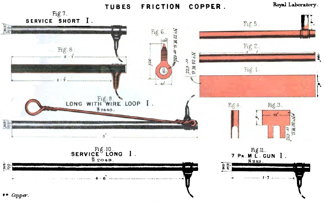 Diagrams showing British Copper friction tubes.